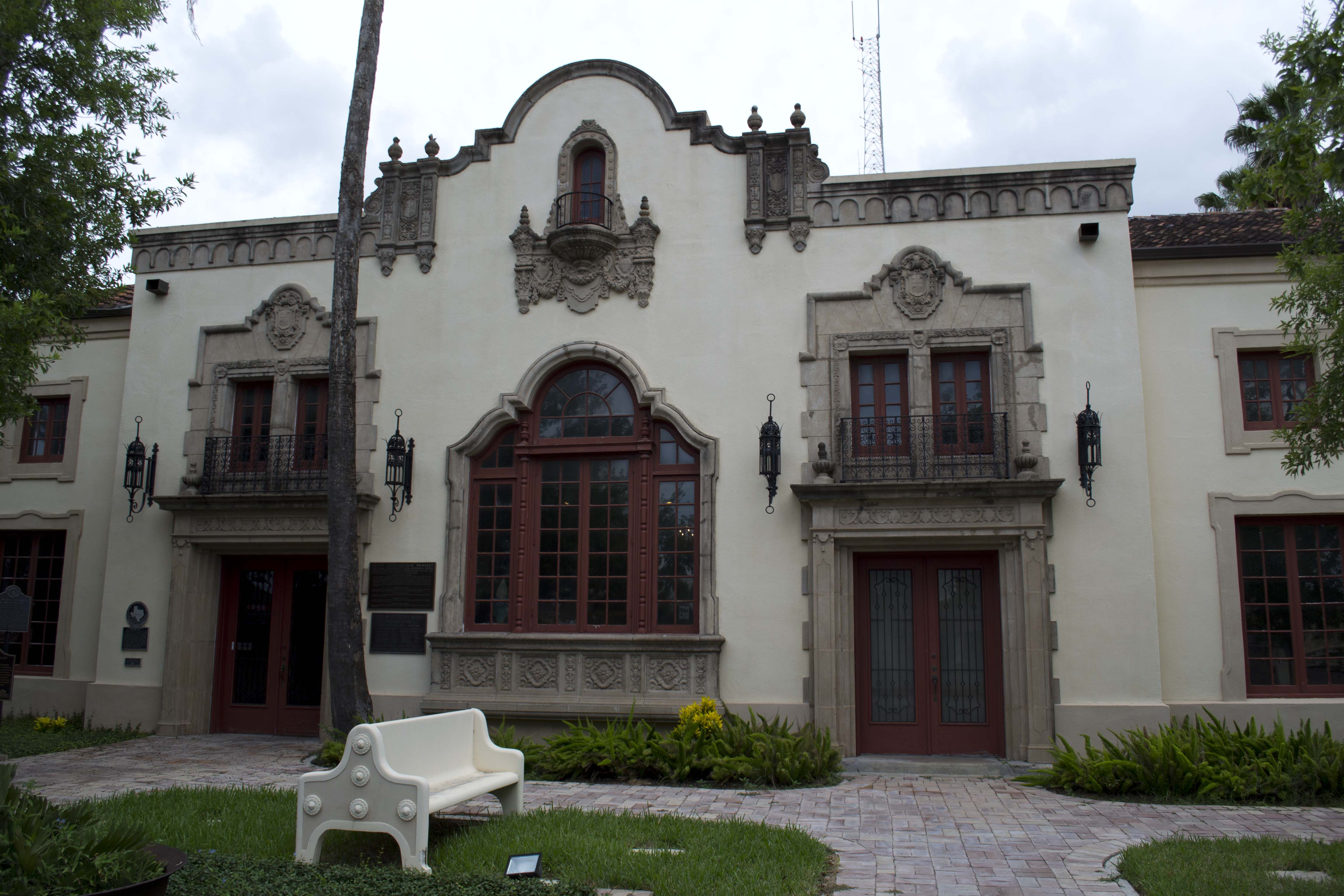 The Southern Pacific Rail Depot in Brownsville, TX. Listed on the NRHP. Now the Brownsville Historical Museum.